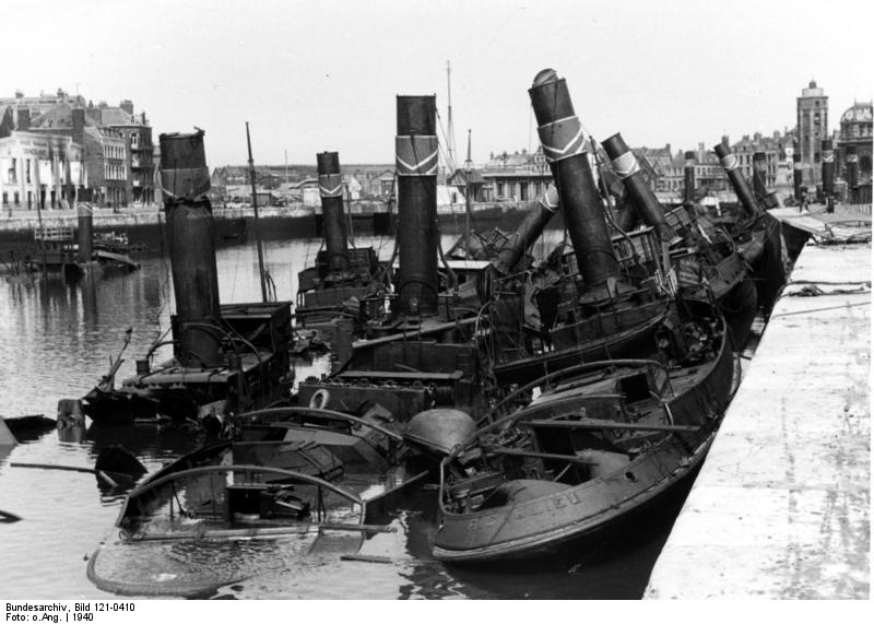 France, war damage ... destroyed ships in harbor (Northern France, location unstated)